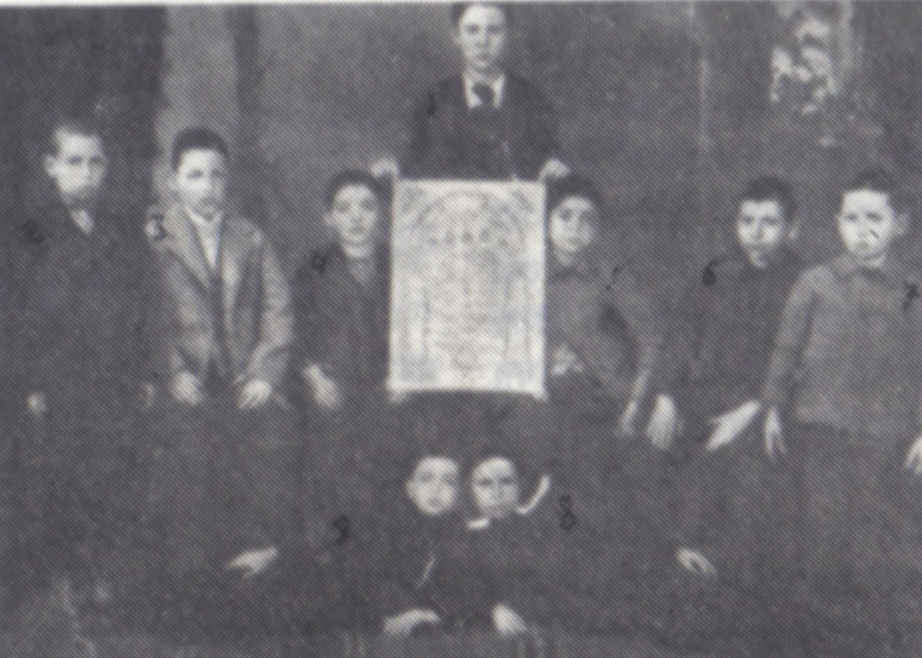 The "Mikve Israel" cultural circle of Jewish youths in Plovdiv in 1896.